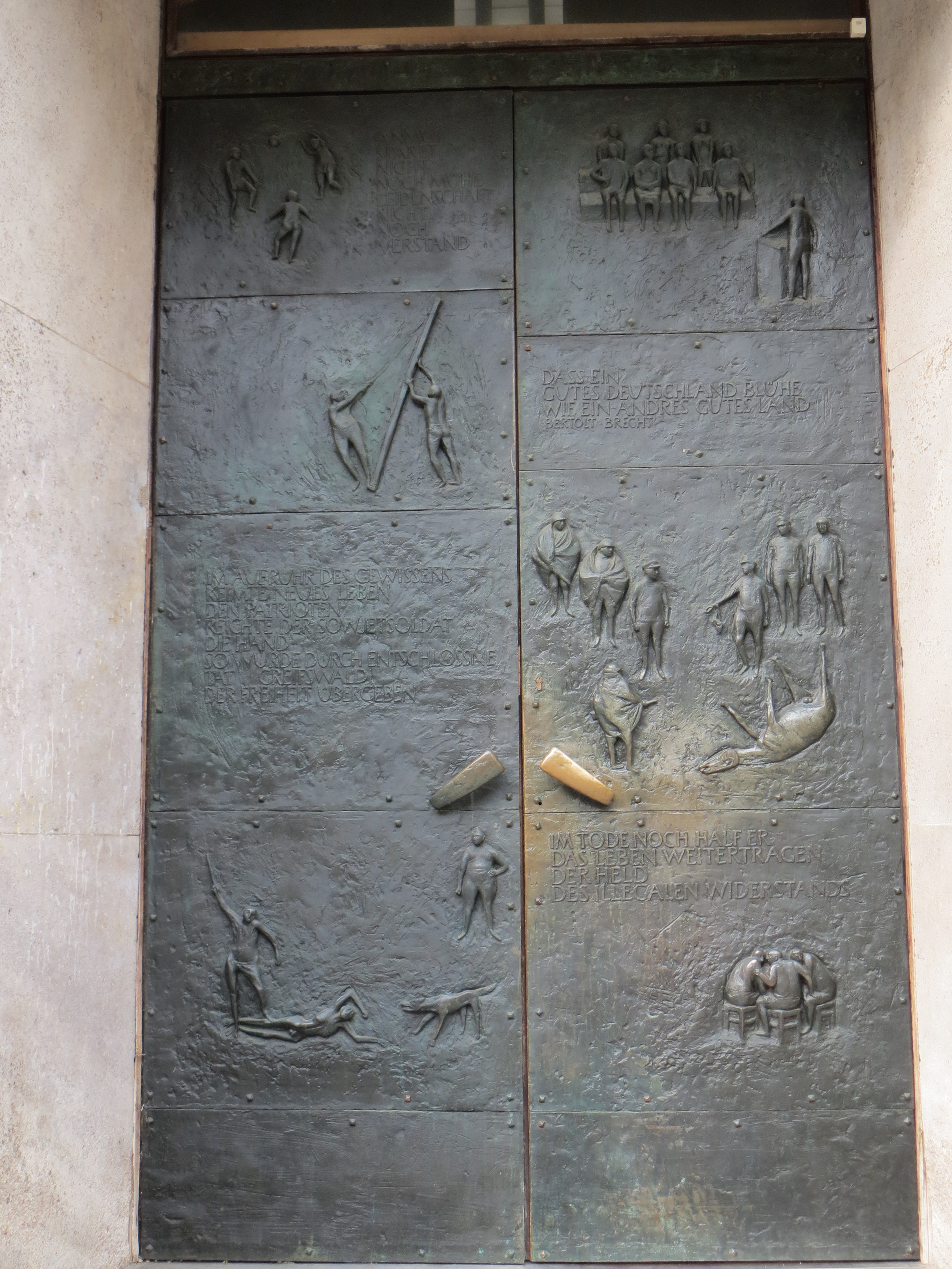 Bronze doors at Greifswald town hall, designed by Jo Jastram